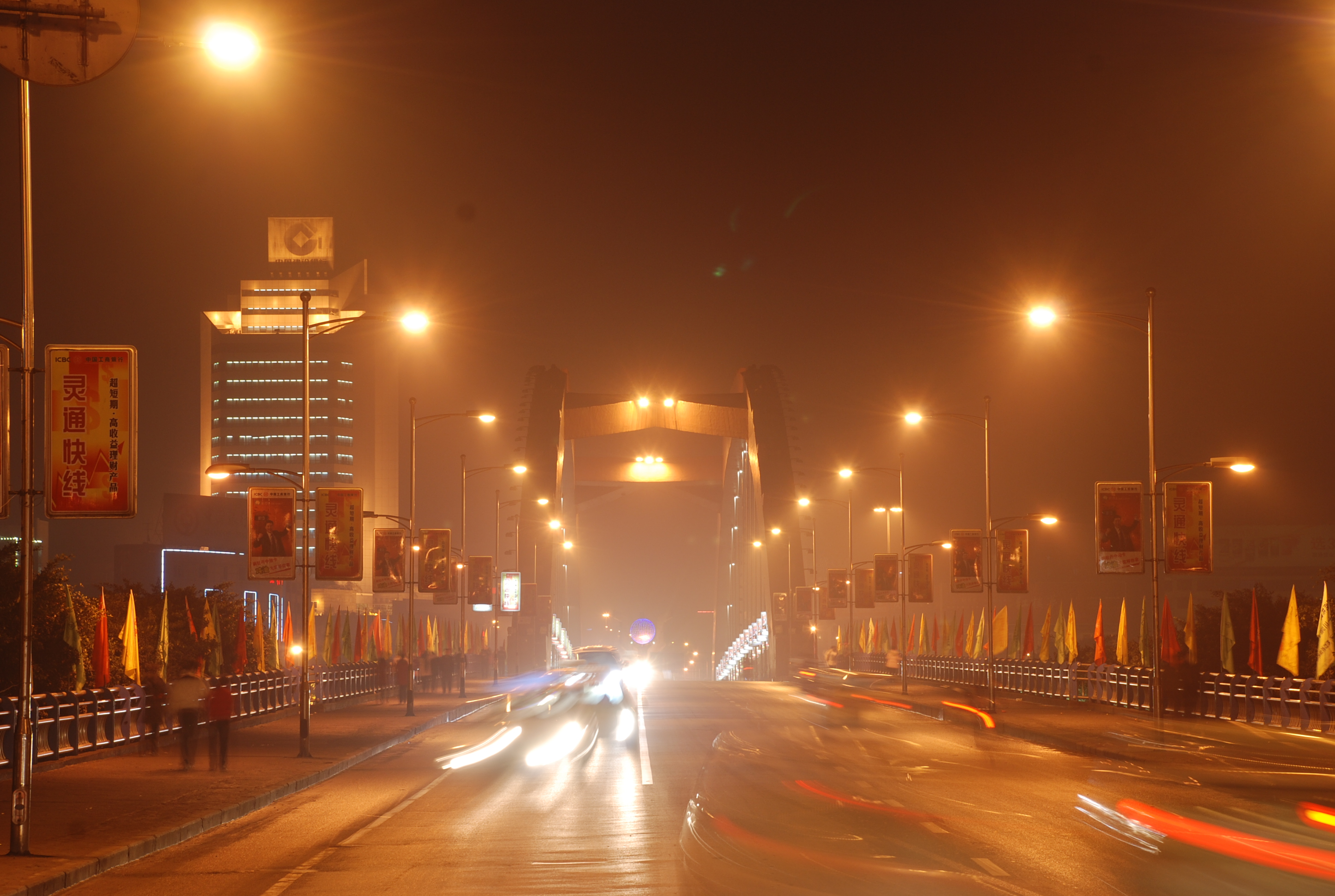 Night View of the Yibin City. Night shot at the South-Gate Bridge (Nanmendaqiao) over the Chang Jiang (Yangtze River).